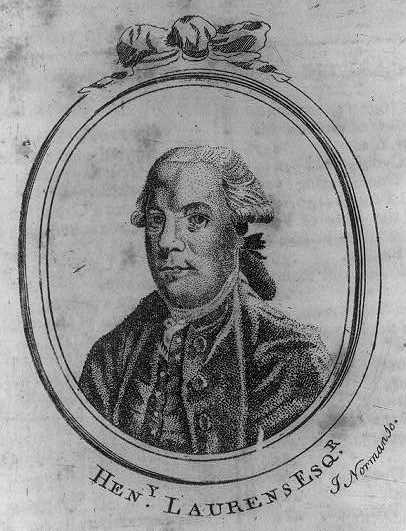 Title: Hen'y Laurens Esq'r. / J. Norman sc. Creator(s): Norman, John, 1748?-1817, engraver. Repository: Library of Congress Rare Book and Special Collections Division Washington, D.C. 20540 USA. Illus. in: The Boston magazine. Boston, Mass. : Norman & White, 1784 September, frontispiece.